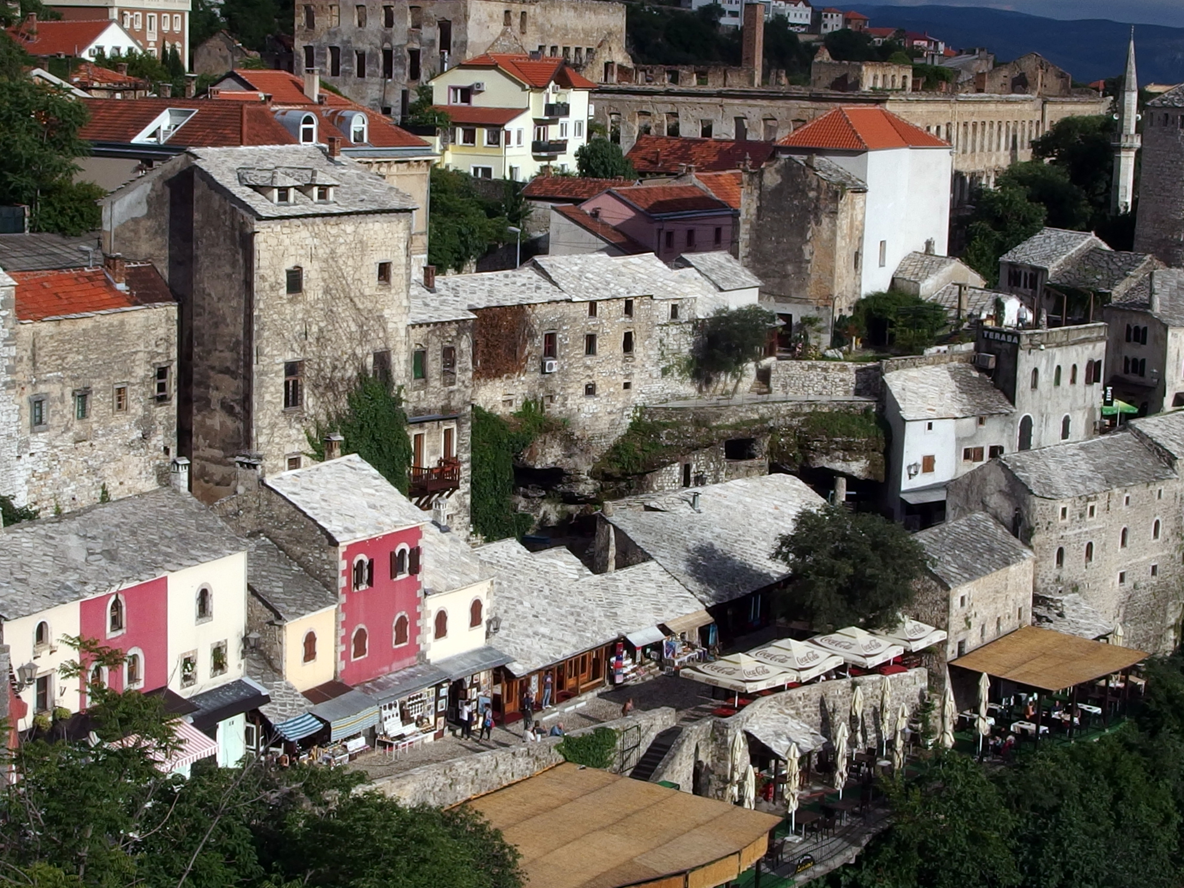 2013-06-06 in Mostar.